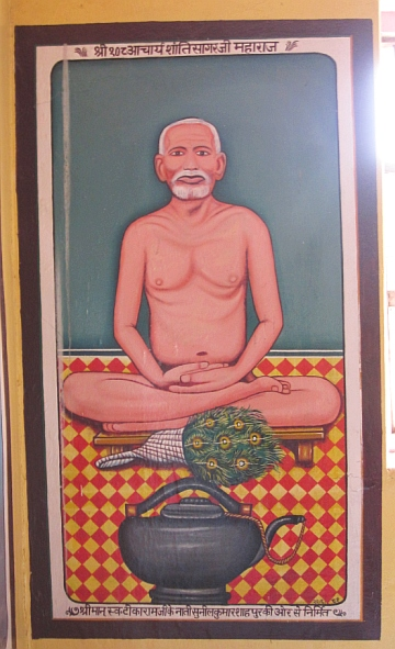 A mural of Acharya Shantisagar ji in a Jain temple in Shapur, MP, India.